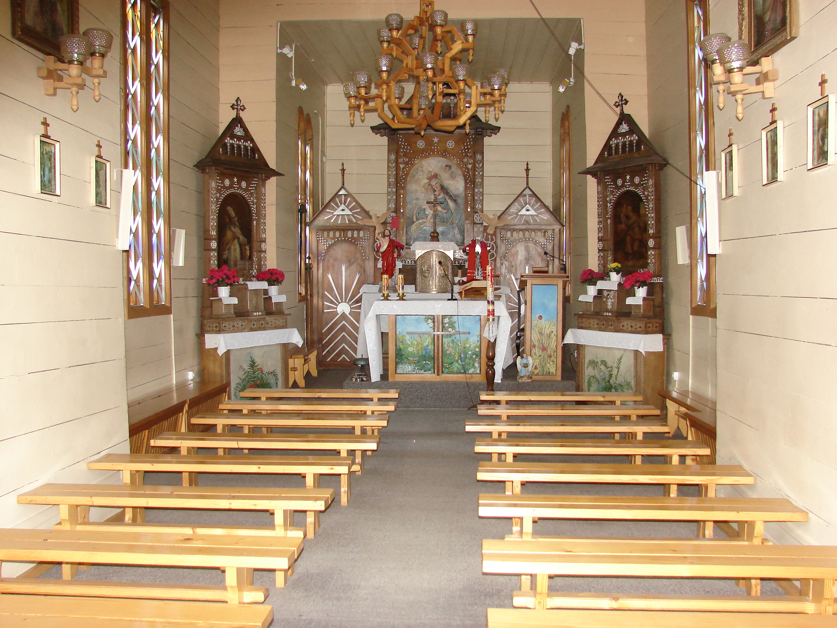 Chapel "On water" - inside